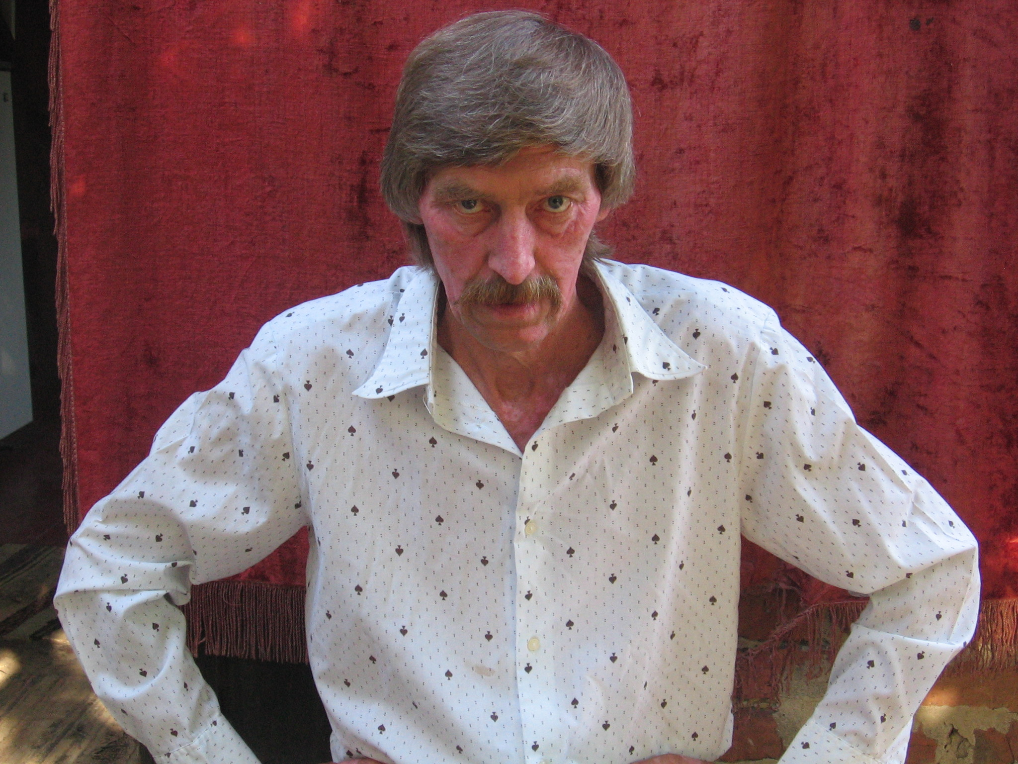 Mikhail Afanasievich Zinar (* 09.05.1951) study composer from the Ukraine